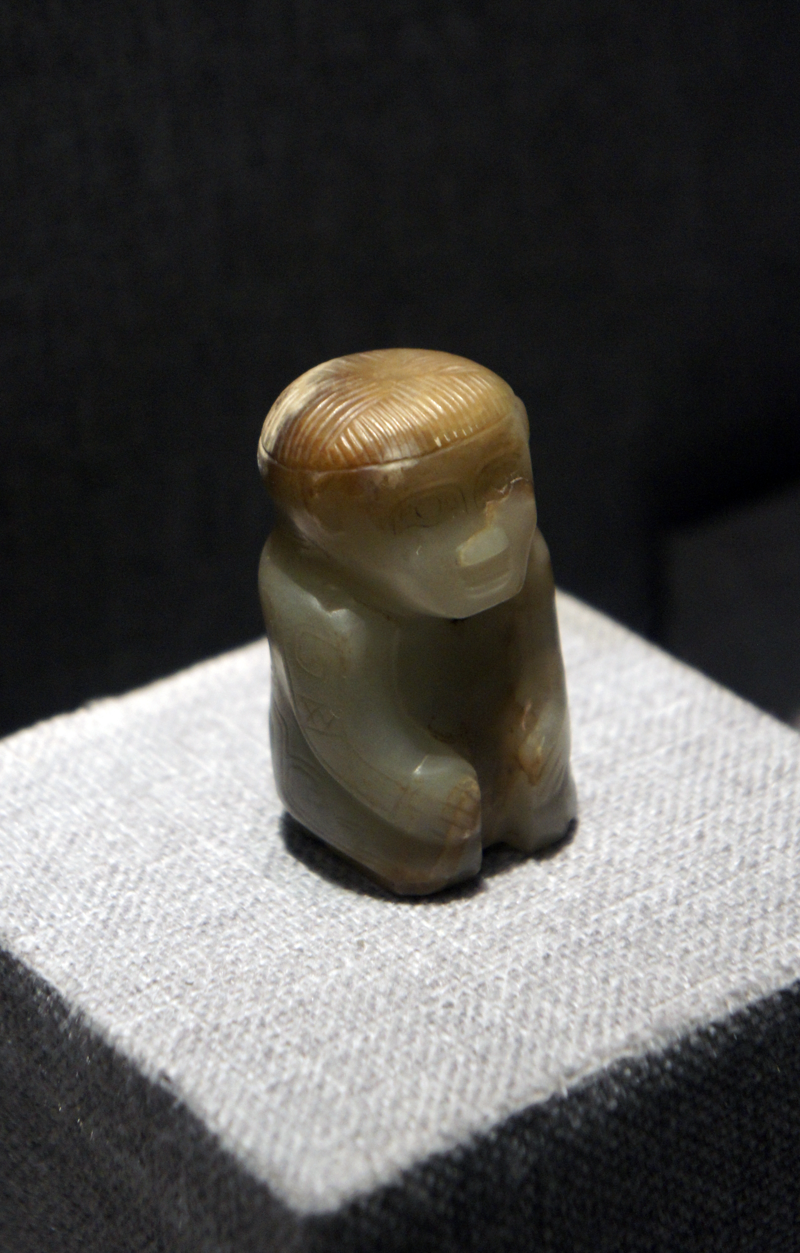 A kneeling (or jizuo 跽坐 a type of sitting posture) statue pendant known as jade pei (玉佩) from late Shang dynasty (1300 BC-1046 BC), excavated in 1976 from Fu Hao tomb, Anyang. See also 2nd picture